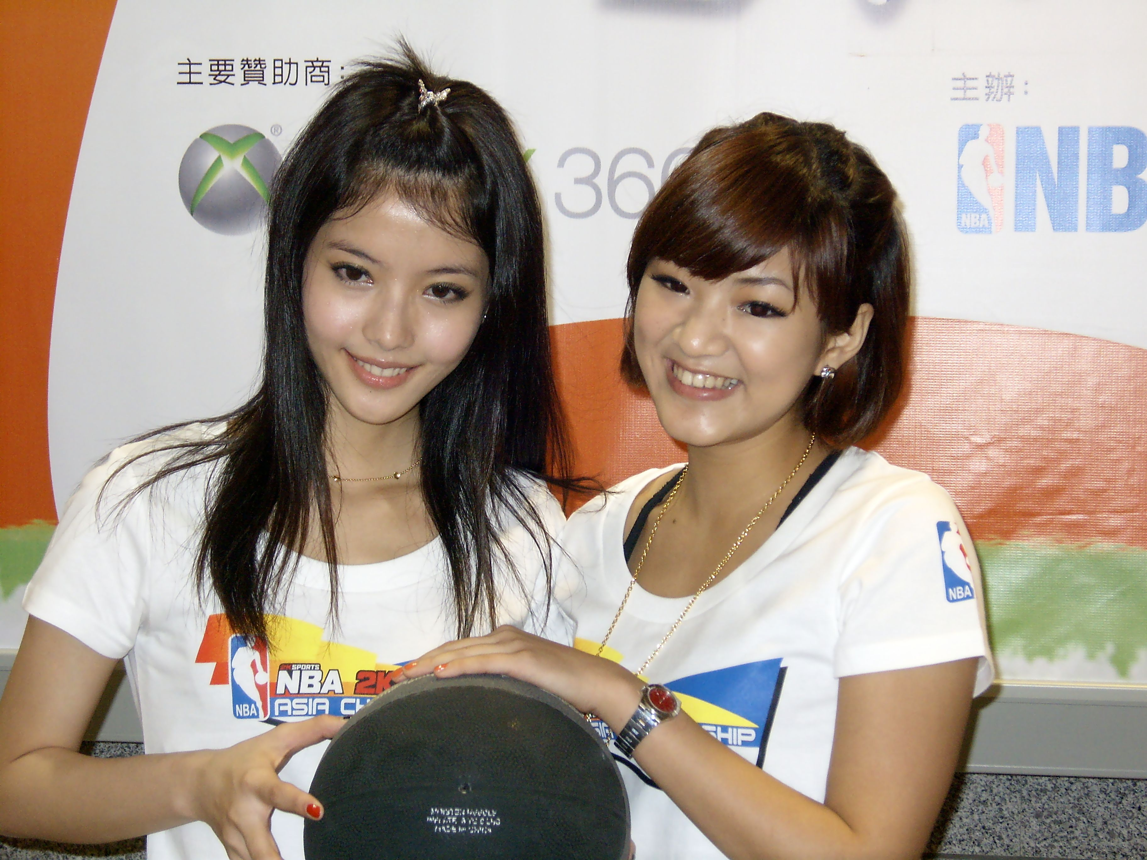 2007 NBA 2K8 Asia Championship in Taiwan: Yummy, a Taiwanese girlband.